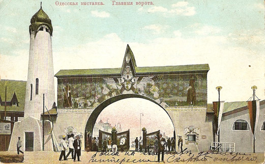 Carte Postale (Open Letter) with view of main gates of Odessa Exposition 1910